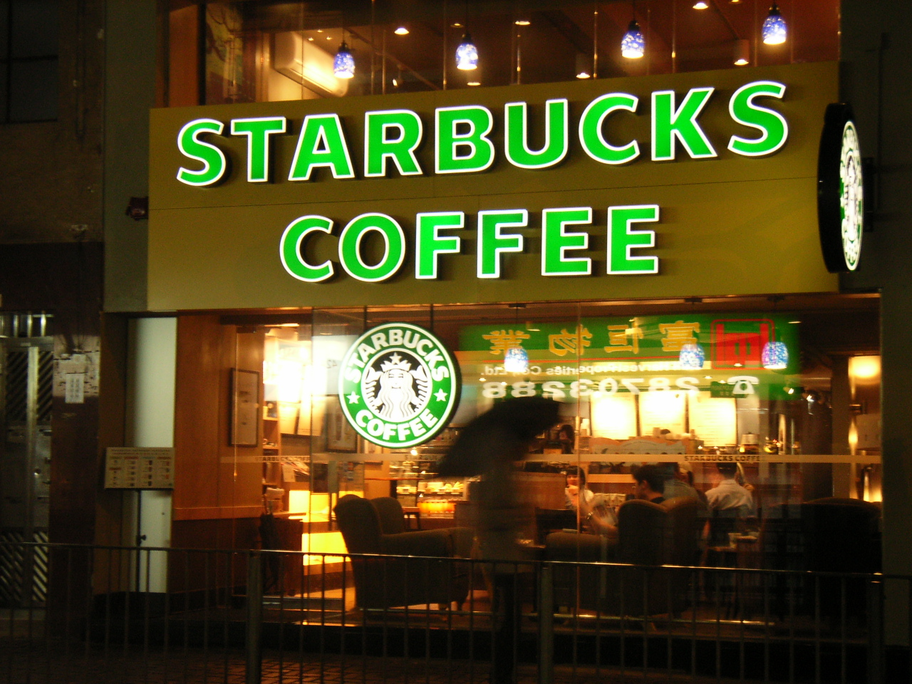 Starbucks Coffee in Hong Kong Mid-Levels, Caine Road.